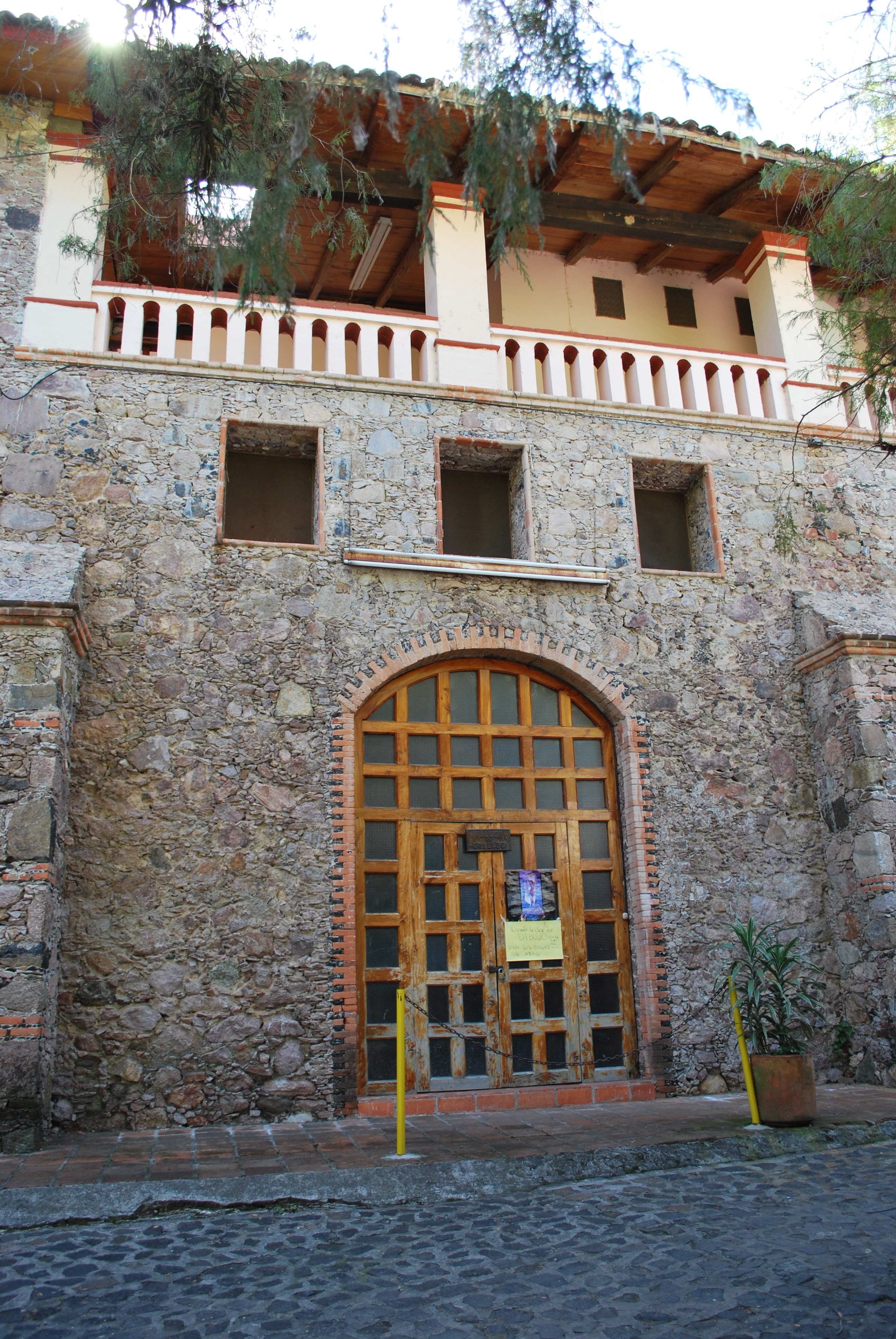 Part of the main house of the Ex-hacienda of Chorillo with entrance to one of the studios in Taxco de Alarcón, Guerrero, Mexico